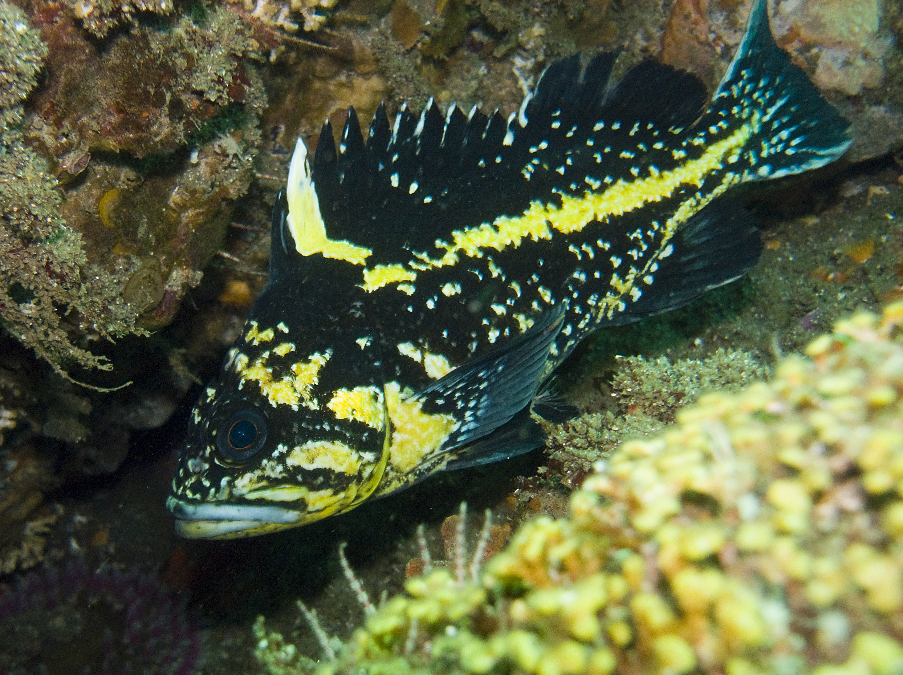 China rockfish (Sebastes nebulosus) photo taken in Neah Bay, WA, USA